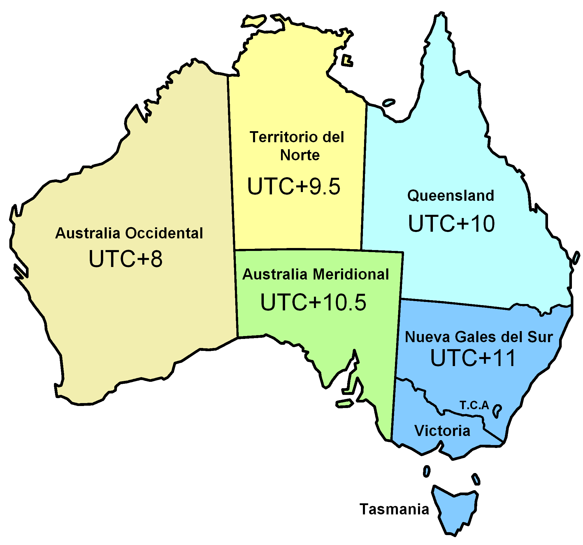 Map of the time zones in Australia during the daylight saving time.